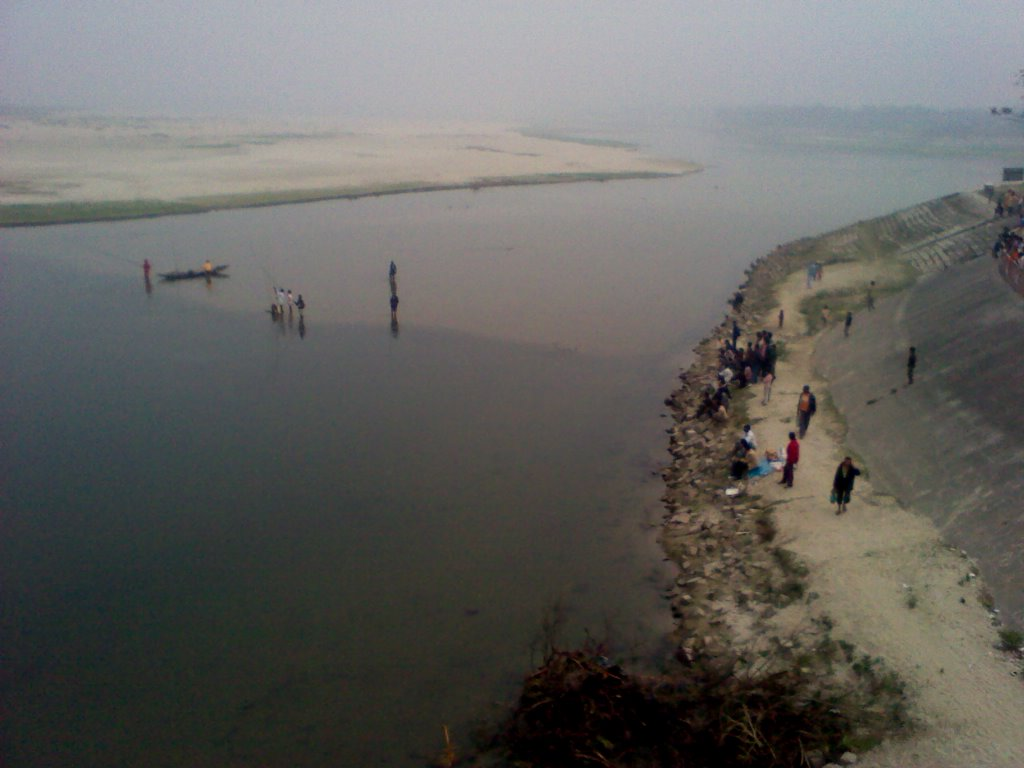 karatoya river debiganj